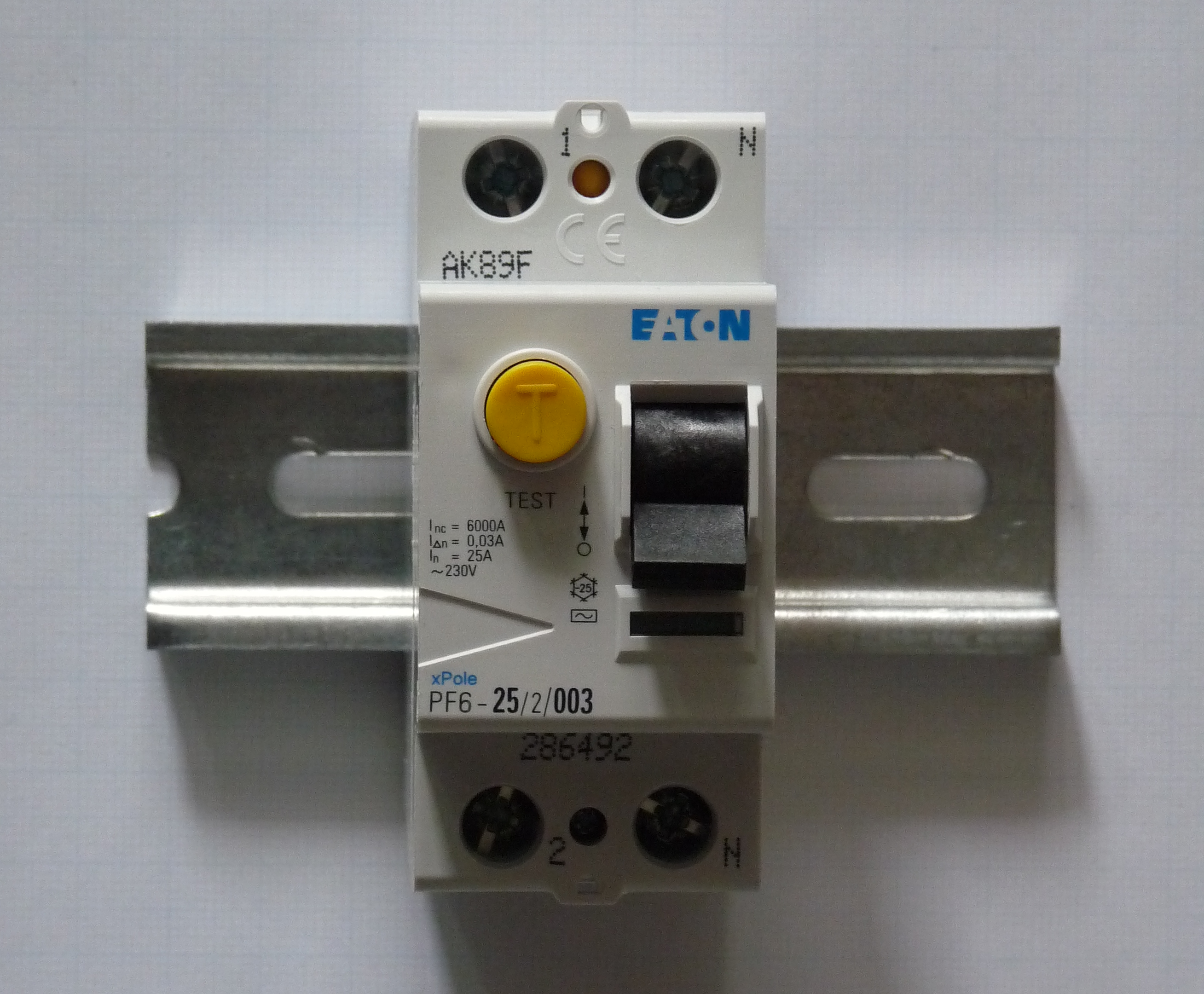 2-pole residual current device